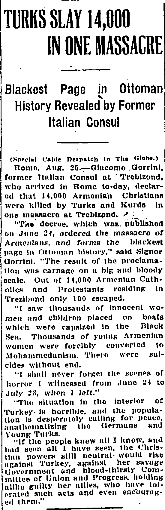 Armenian Genocide witness Giacomo Gorrini recounts the events. During World War I Gorrini openly denounced the Armenian Genocide through press articles and interviews and didn't hesitate to describe the policies of massacre perpetrated against the Armenian.